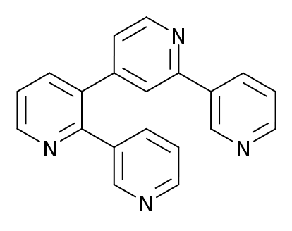 Nemertelline skeletal structure